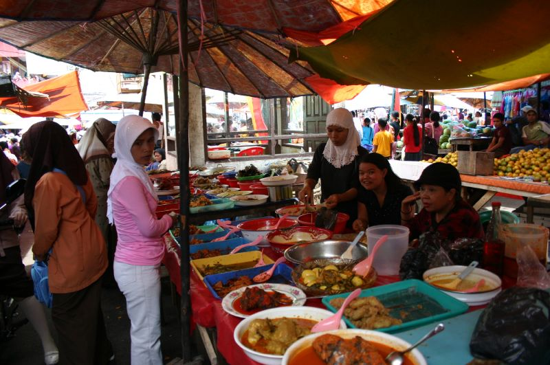 Gulai in Payakumbuh, West Sumatra, Indonesia